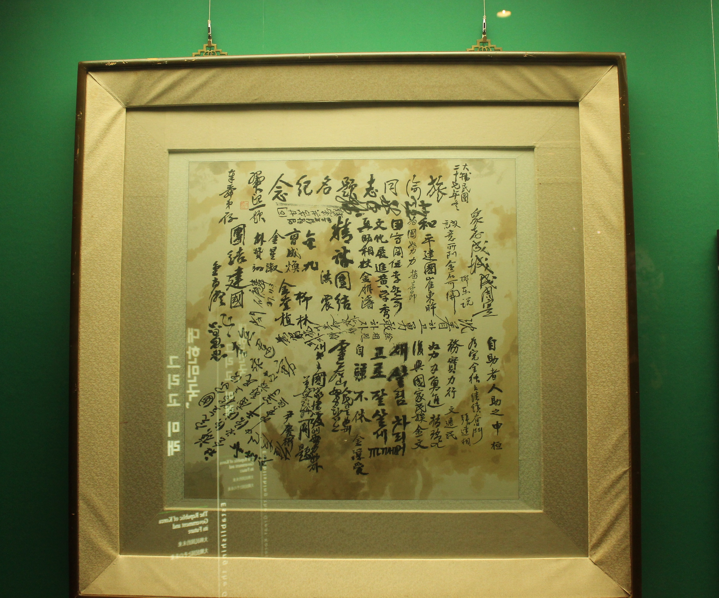 A Sheet of Cloth Containing Autographs of Leaders of the Korean Provisional Government on the Occasion of Returning Home to Korea. Donatoer: In Keron Ahn son of Independence Movement Leader Bong Soon Ahn